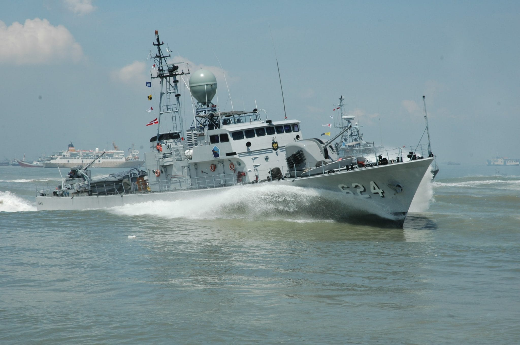 Indonesian navy fast attack craft KRI Keris (624).